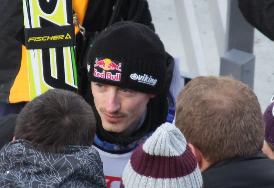 Adam Malysz talks to polish supporters after WC tournament in Holmenkollen, Oslo 2010